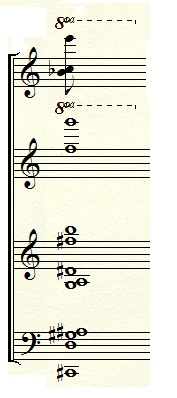 Fundamental Chord used in Klaas de Vries' opera 'A King, Riding'.